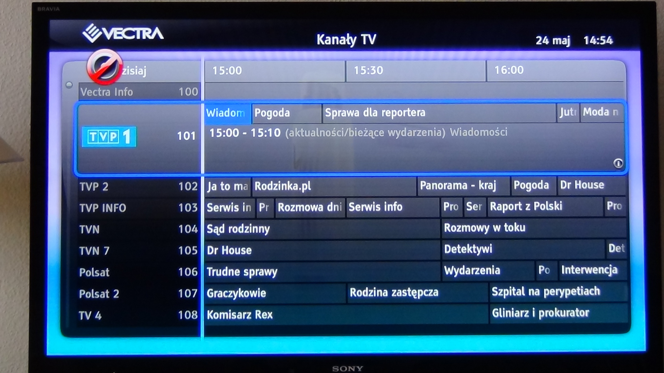 Electronic Program Guide